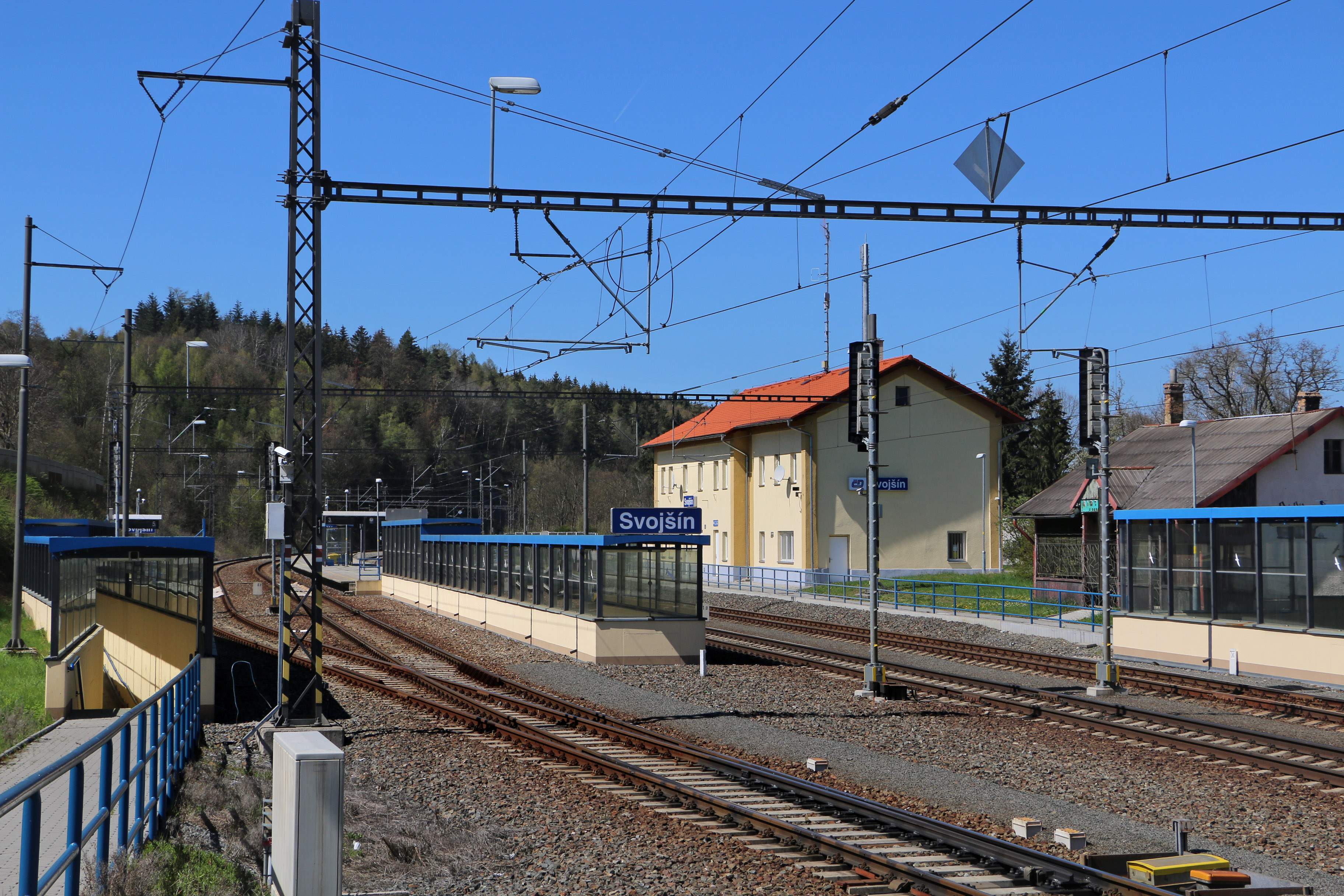 Railway station in Svojšín, Czech Republic.